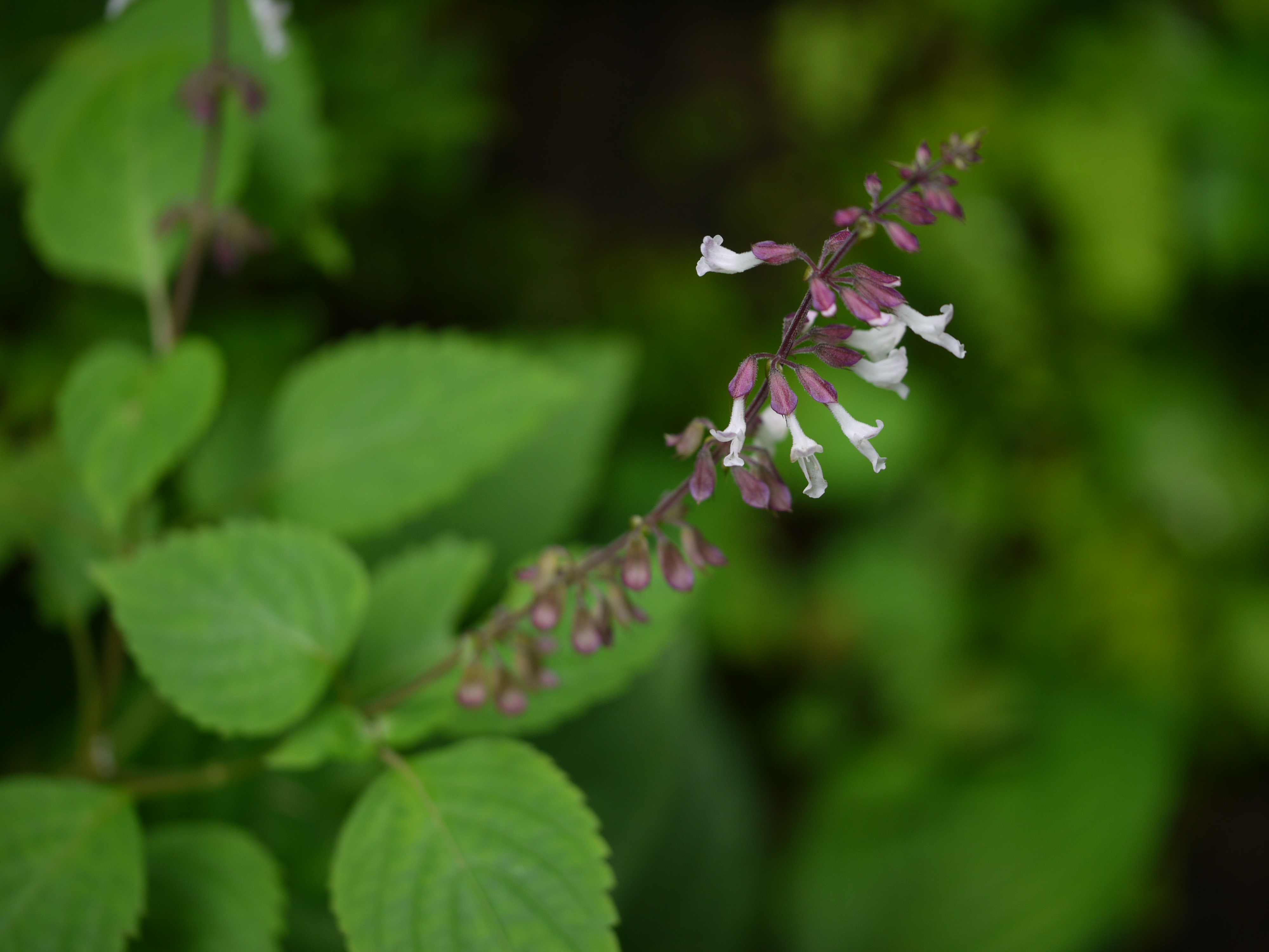 Lamiaceae (mint family) » Orthosiphon rubicundus or-tho-SY-fon -- meaning, upright or straight tube rub-ee-KUN-dus -- meaning, ruddy commonly known as: red Java tea Native to: e and s tropical Africa, Himalaya (Kumaun to Nepal), India, Myanmar References: Flowers of India • eFlora • Aluka